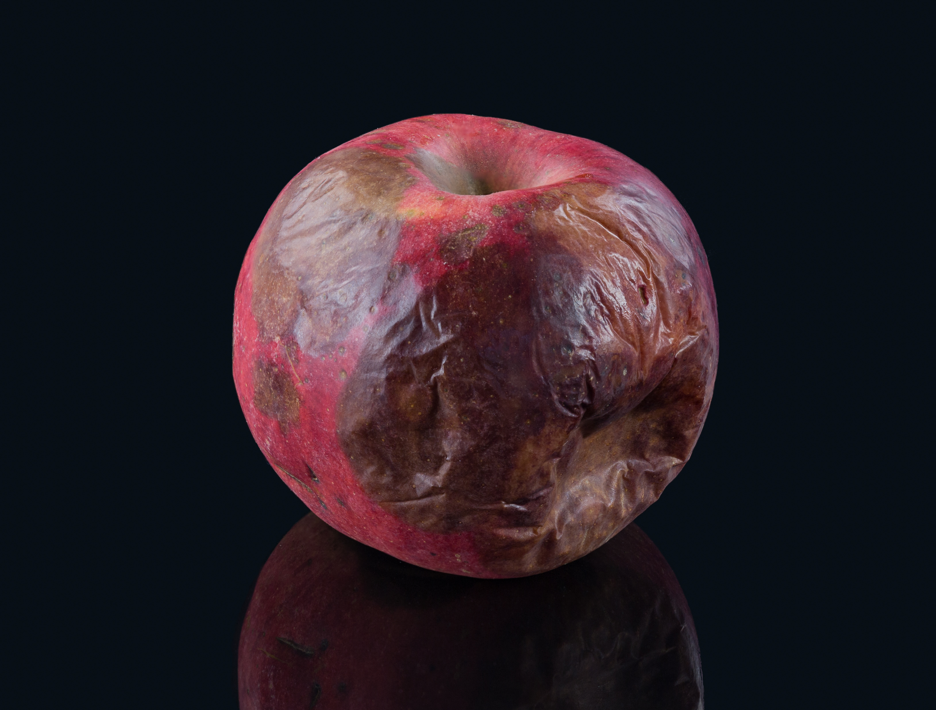 Gala (Producer: Erich Altenriederer), Karmelitermarkt, Vienna 2015